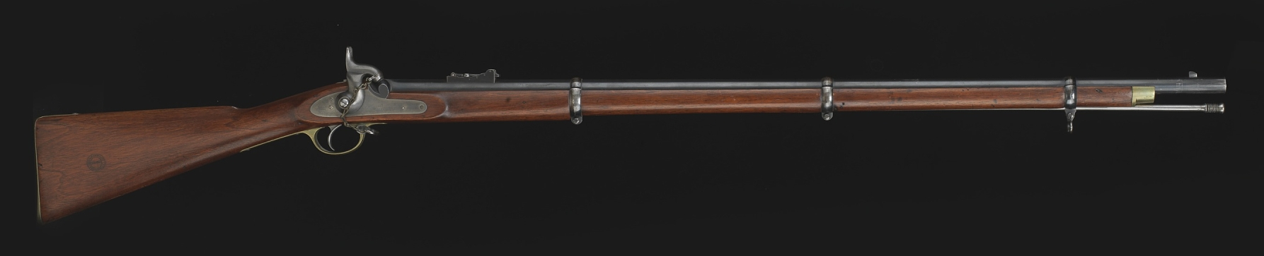 The .577 caliber British Pattern 1853 Rifle-Musket was the second most widely used firearm of the Civil War. A favorite of Confederate soldiers, it was also imported by the Union to keep up with the demand for rifles. Manufactured by the London Armoury Company. Measurements overall, rifle: 54 3/4 in x 2 3/8 in; 139.065 cm x 6.0325 cm